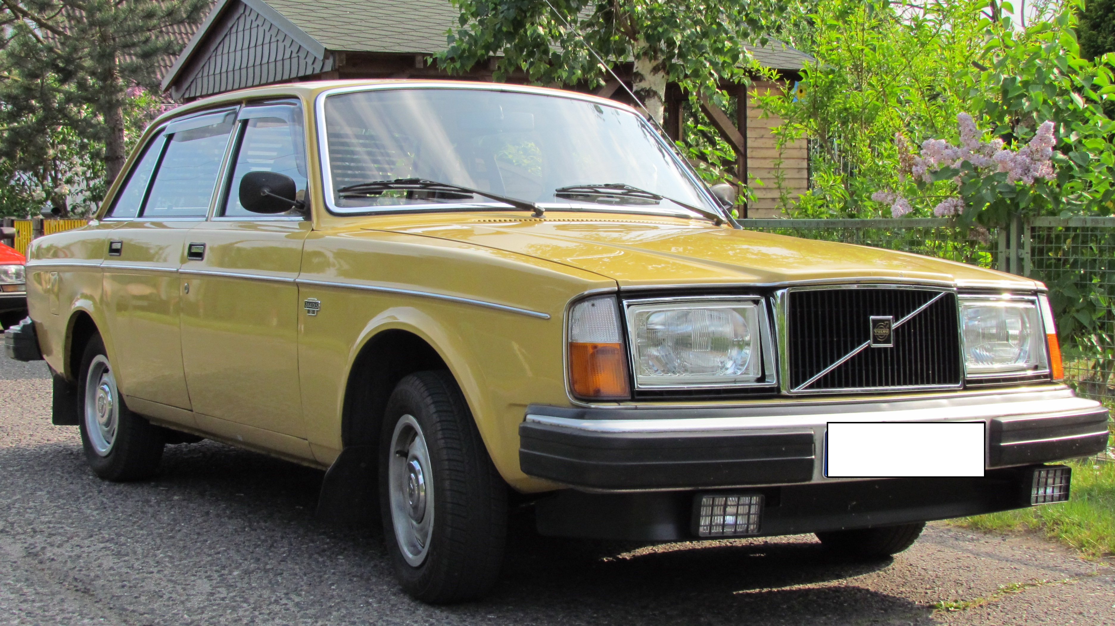 Volvo 244 DLS (DeLuxe Special) Limited Edition for the former GDR (German Democratic Republic)